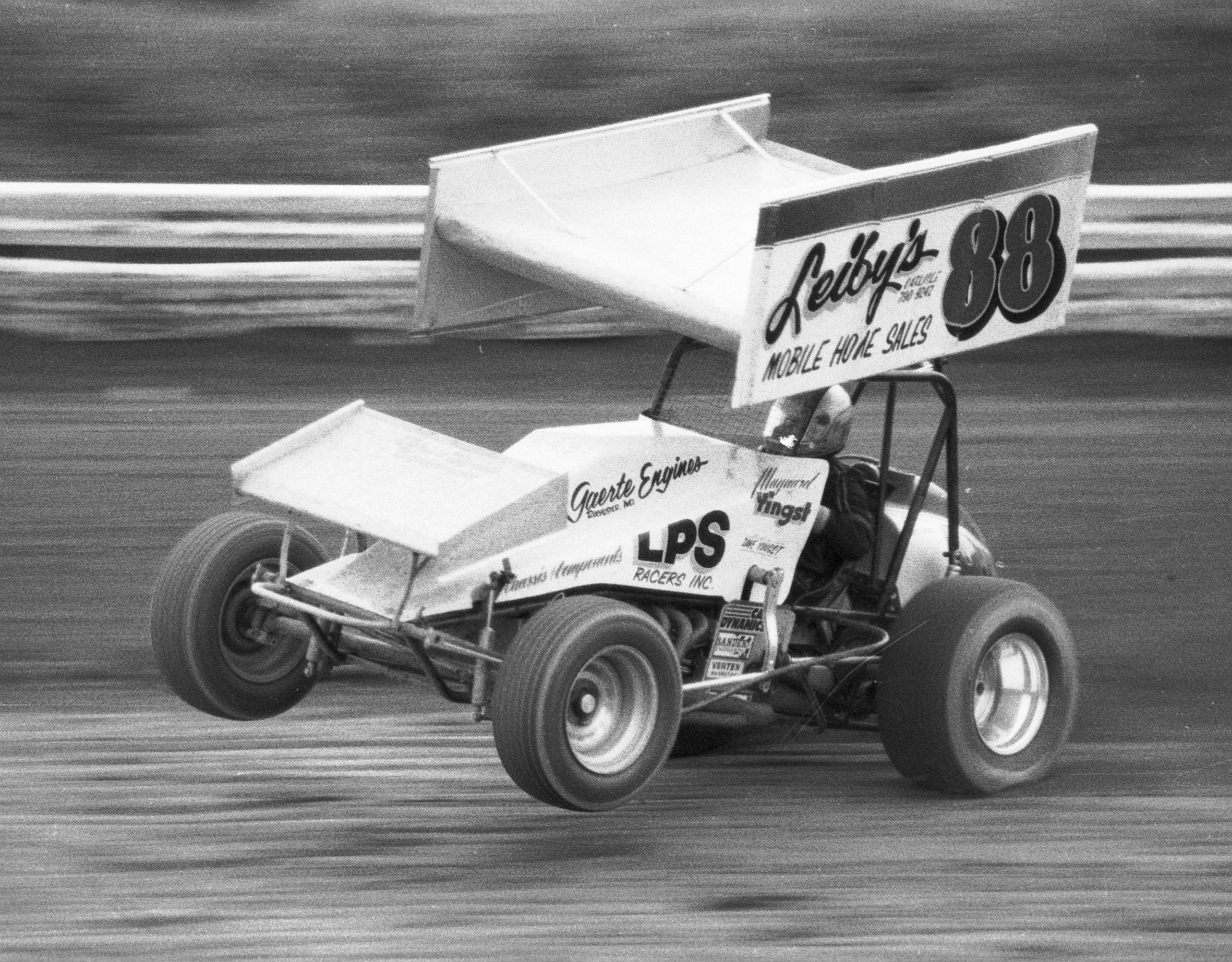 Sprint car driver Maynard Yingst. He later became the winning crew chief for 1989 NHRA Funny Car champion Bruce Larson. Photo by Ted Van Pelt